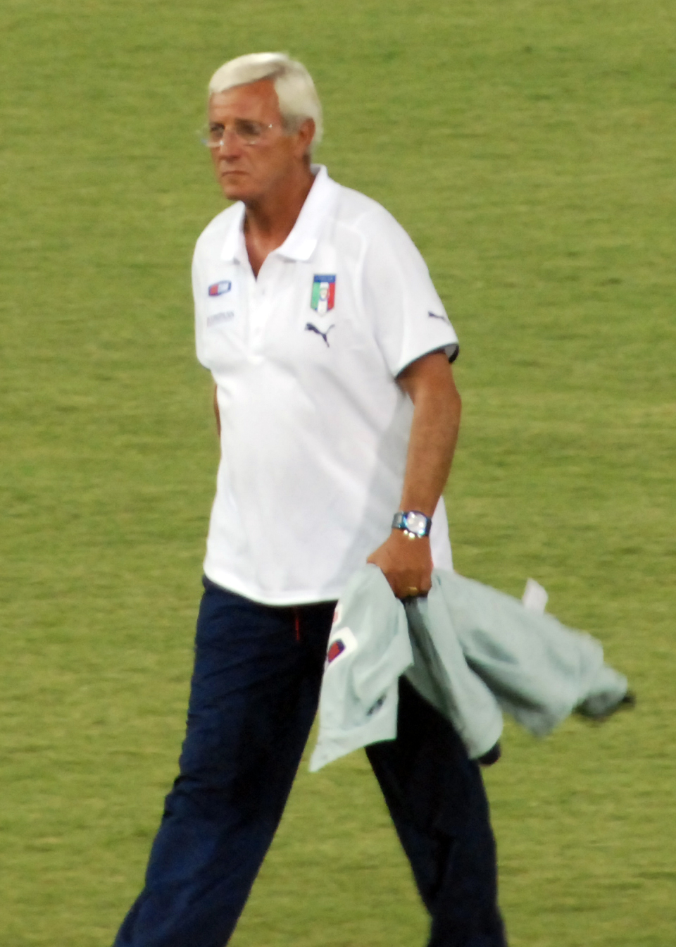 Marcello Lippi during Cyprus-Italy